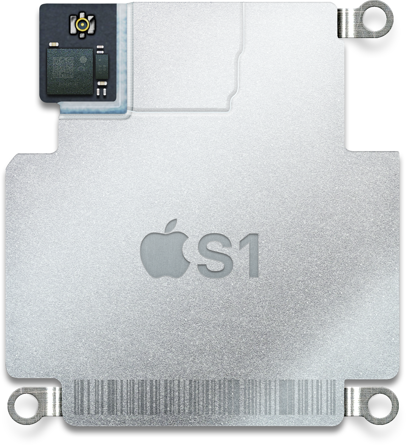 An illustration of Apple's S1 integrated computer for the Apple Watch with its resin encapsulation showing. Inspiration for this picture comes from Apple's promo videos for the Apple Watch, iFixit's and Chipworks' Apple Watch teardown. 2.5 cm wide[1][2]